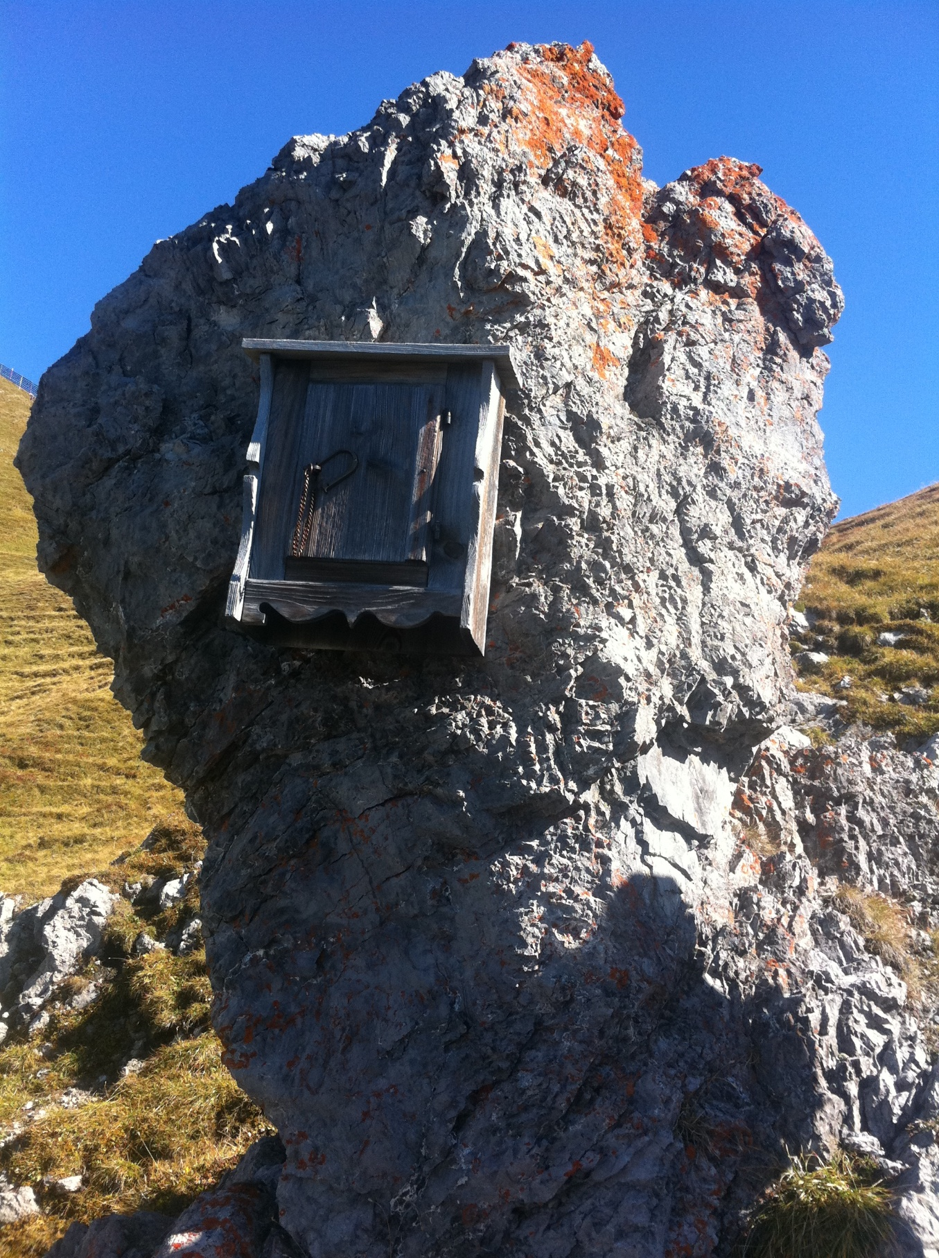 historical stone "Carmennastein" at Carmenna-Pass, Arosa